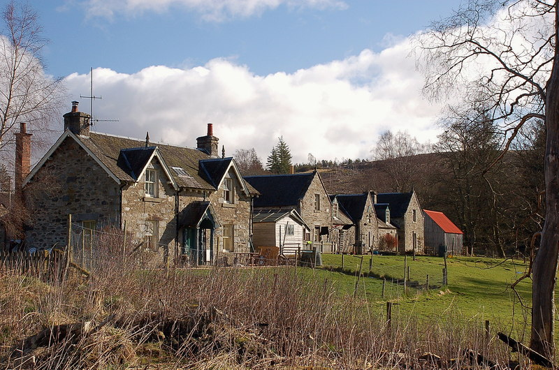 The Sheperd's House/Home Farm at the Dirnanean Estate, Scotland